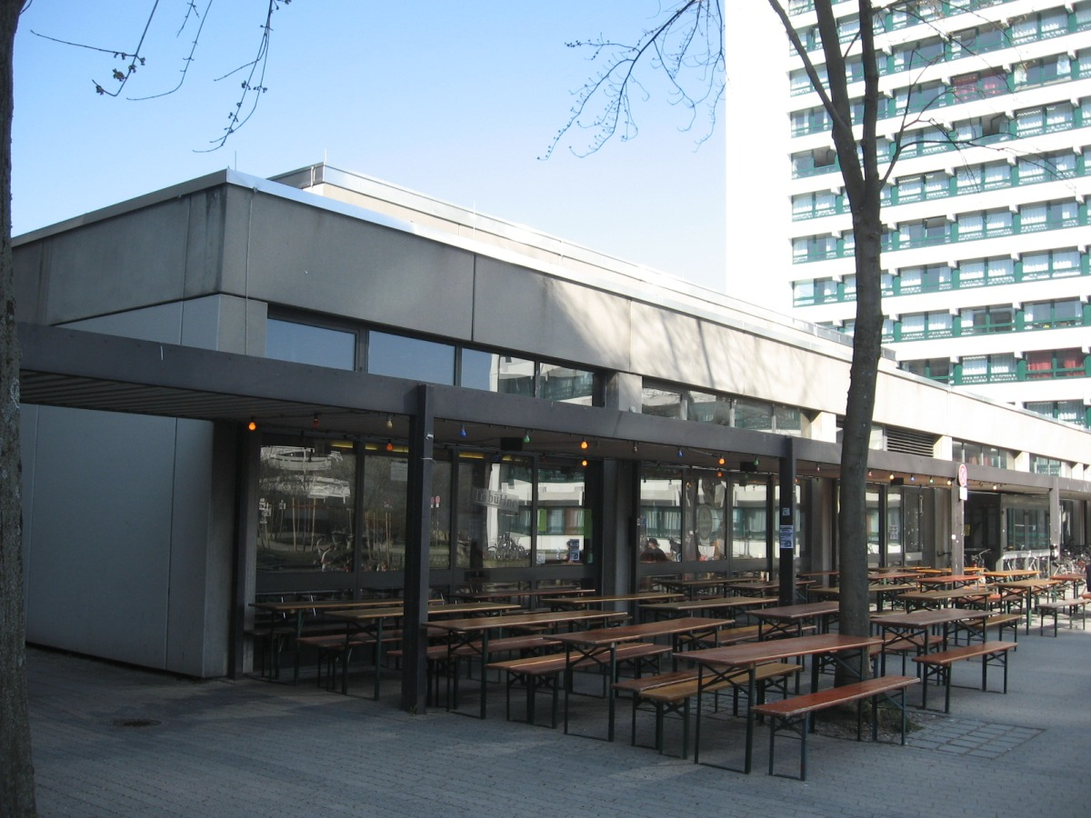 Studentenstadt Freimann in Munich